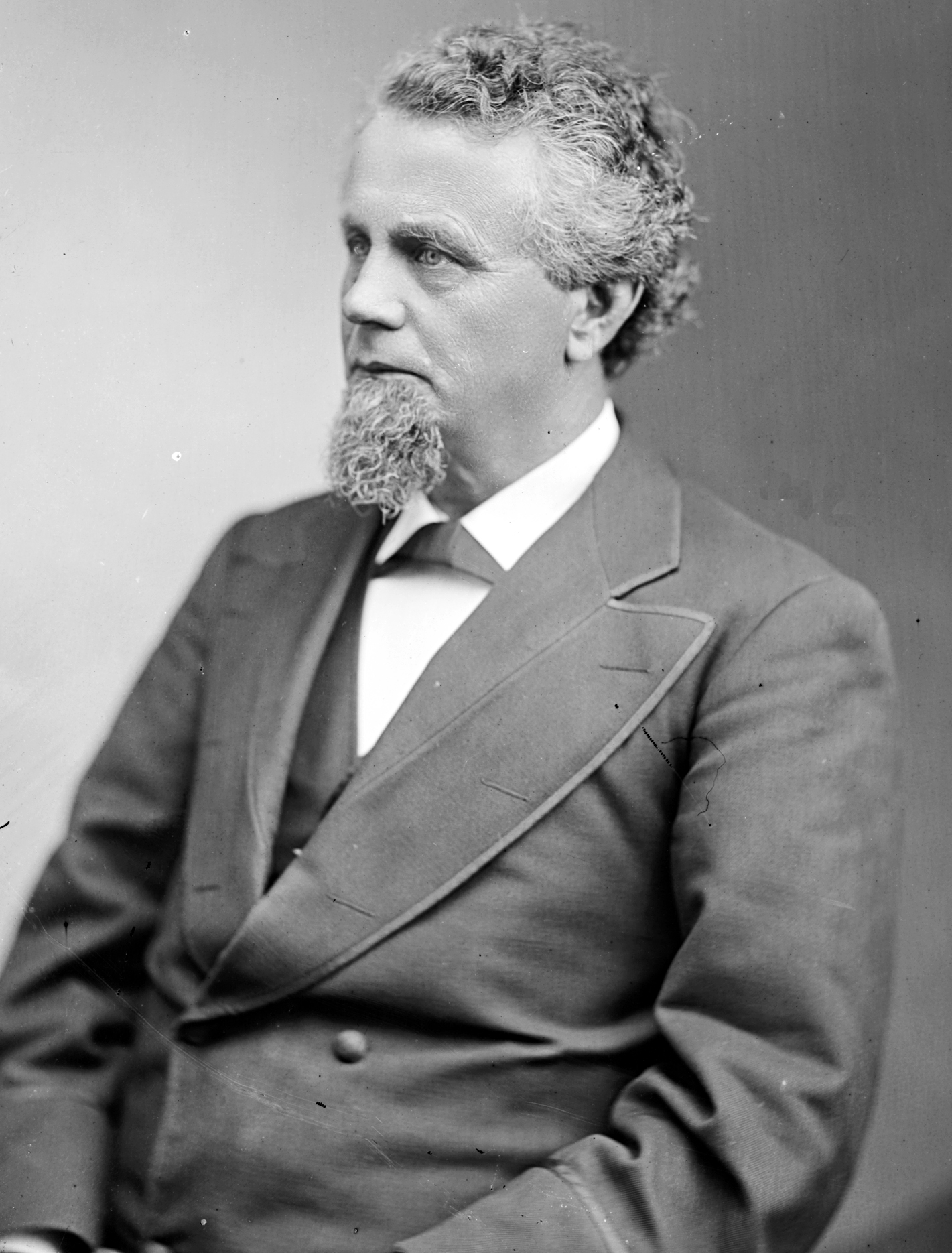 Abraham J. Hostetler, US Representative from Indiana